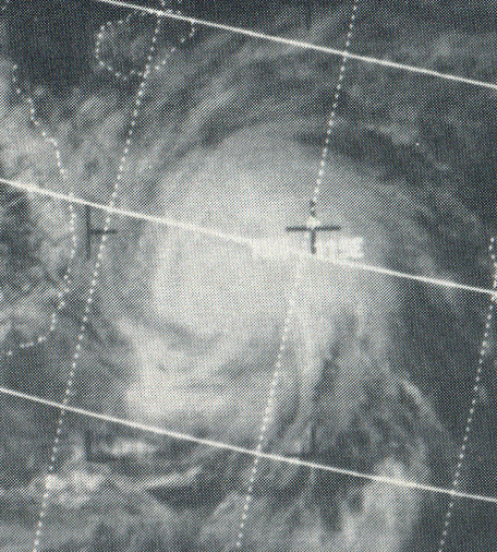 This ESSA 9 weather satellite image of Typhoon Hester was taken at October 22, 1971 at 0647 UTC